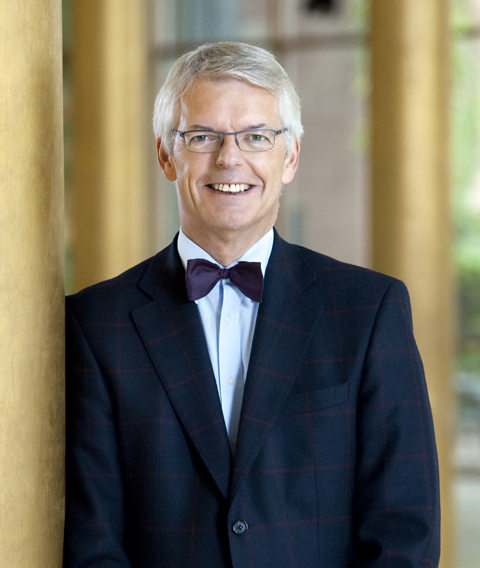 Helmut Reitze, Director-General of German regional public broadcaster Hessischer Rundfunk